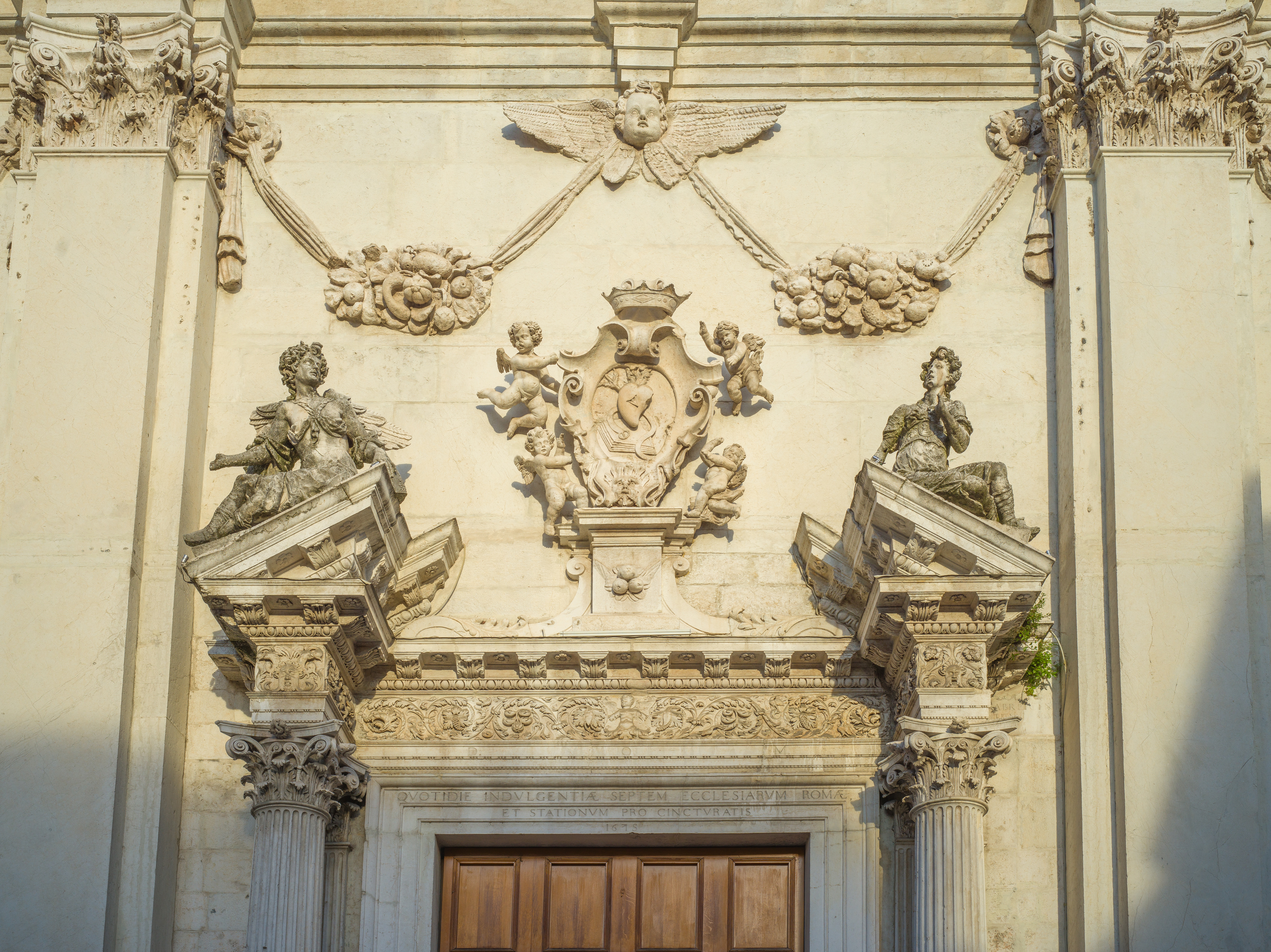 Detail of entrance to the San Barnaba church in Brescia. Attributed to the architect Antonio Comino.